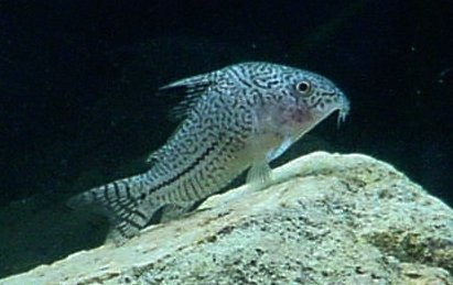 Corydoras haraldschultzi. This member of the Corydoras genus is frequently confused with and sold as Corydoras sterbai. The primary difference is the pattern of dots on the head; the latter has white dots on a black background.